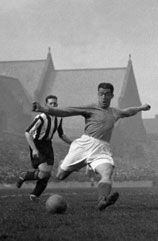 Everton striker Dixie Dean as a 16 year old in 1923